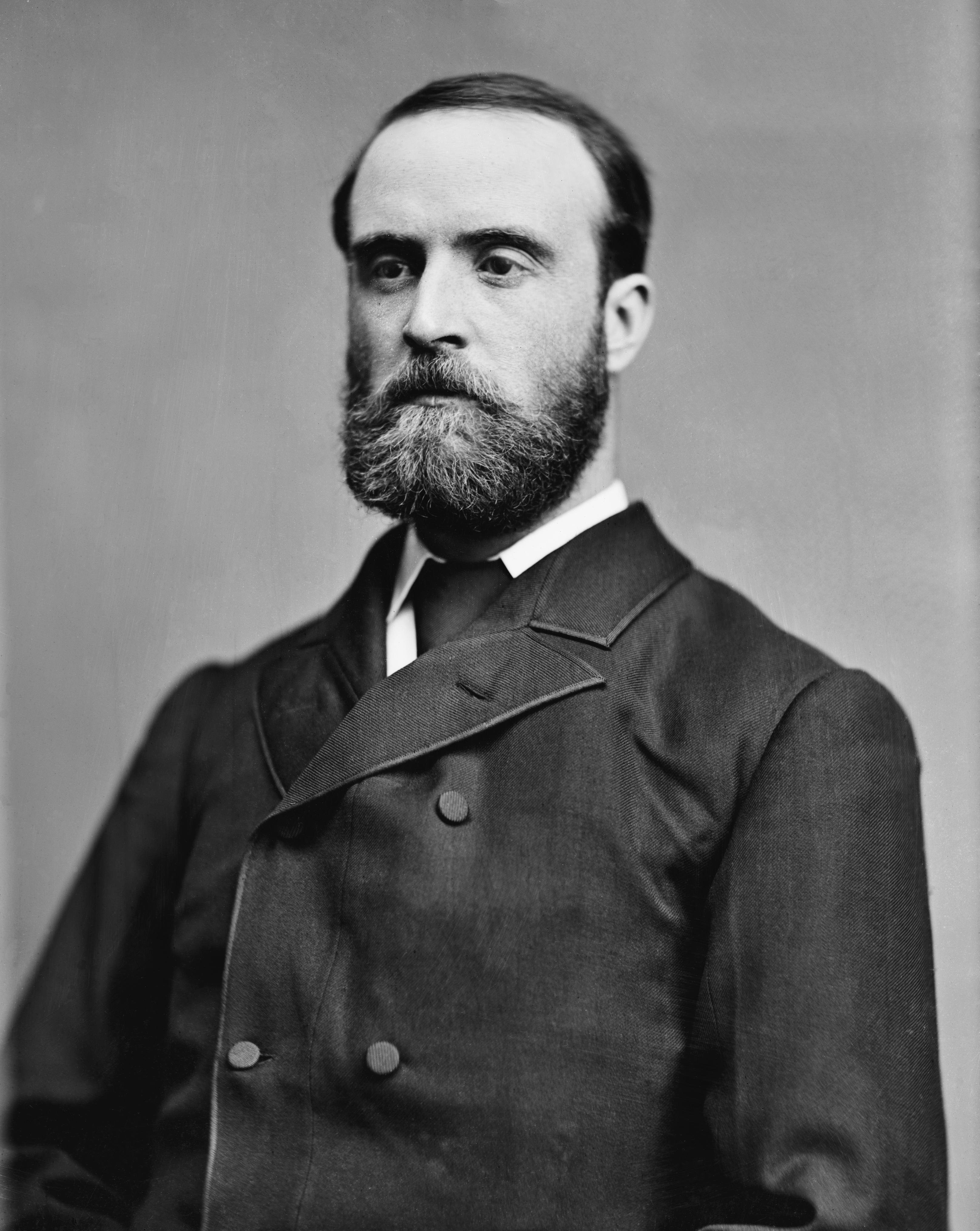 Charles Stewart Parnell. Library of Congress description: "Hon. Chas. Parnell of Dublin, Ireland"